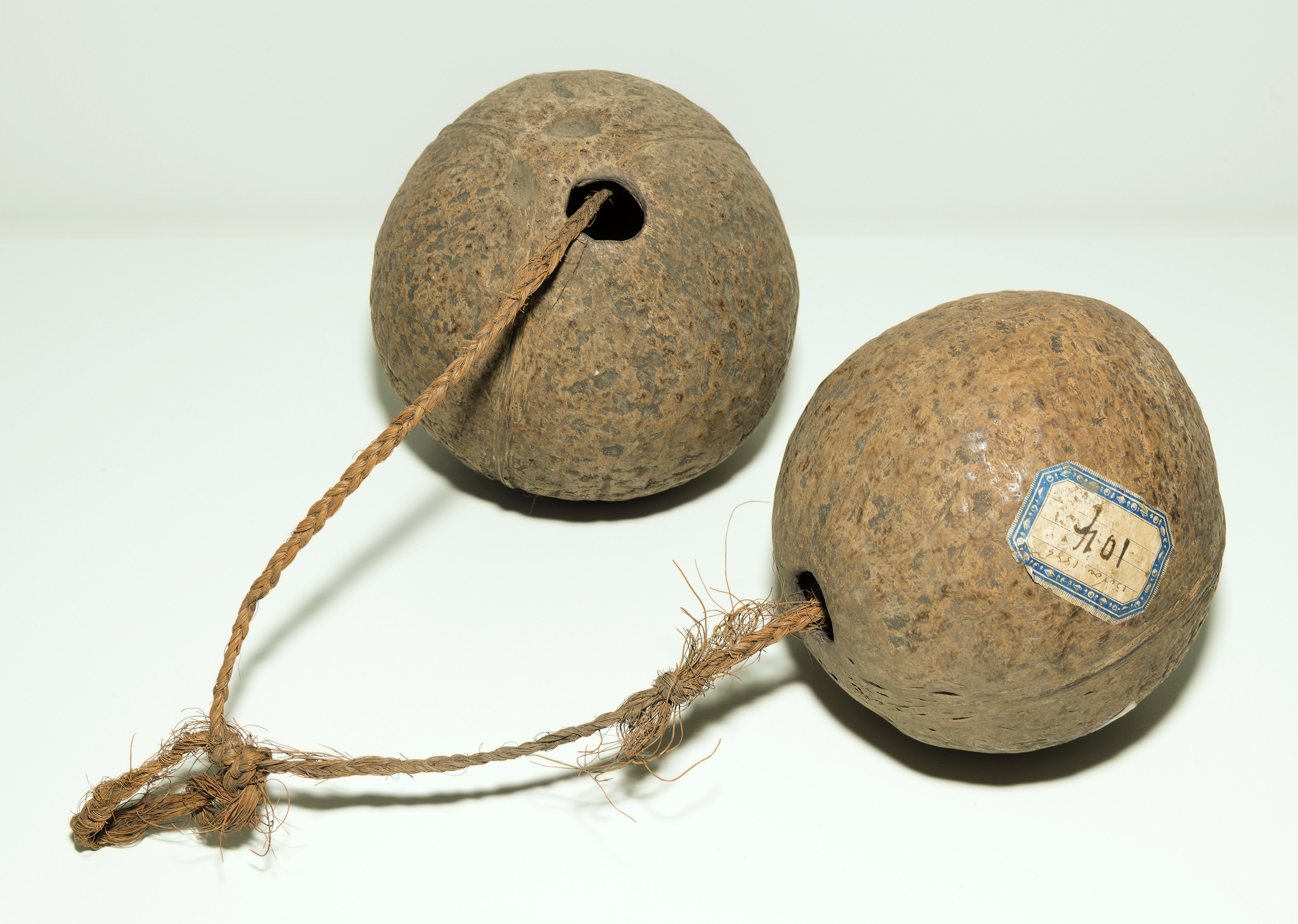 Canteen : consists of two hollow fruit and vegetable fiber braided Population : Kanak people, New Caledonia Collector and collection: Théophile Savès Date of collection: the nineteenth century (4th Quarter) Materials: Jegetable fiber and dried fruits, coconuts (Cocos nucifera) Size : 43 cm